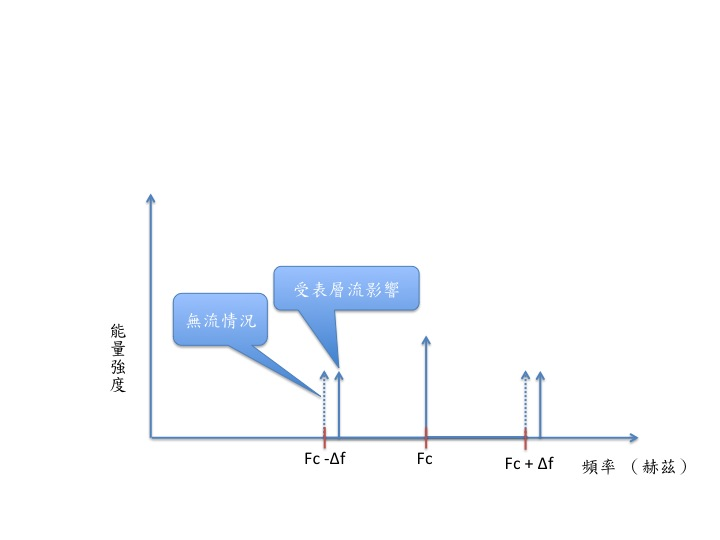 An trivial example of received signal spectrum